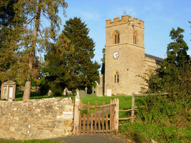 Churchyard and west tower of the parish church of St John the Baptist, Tiffield, Northamptonshire, seen from the southwest